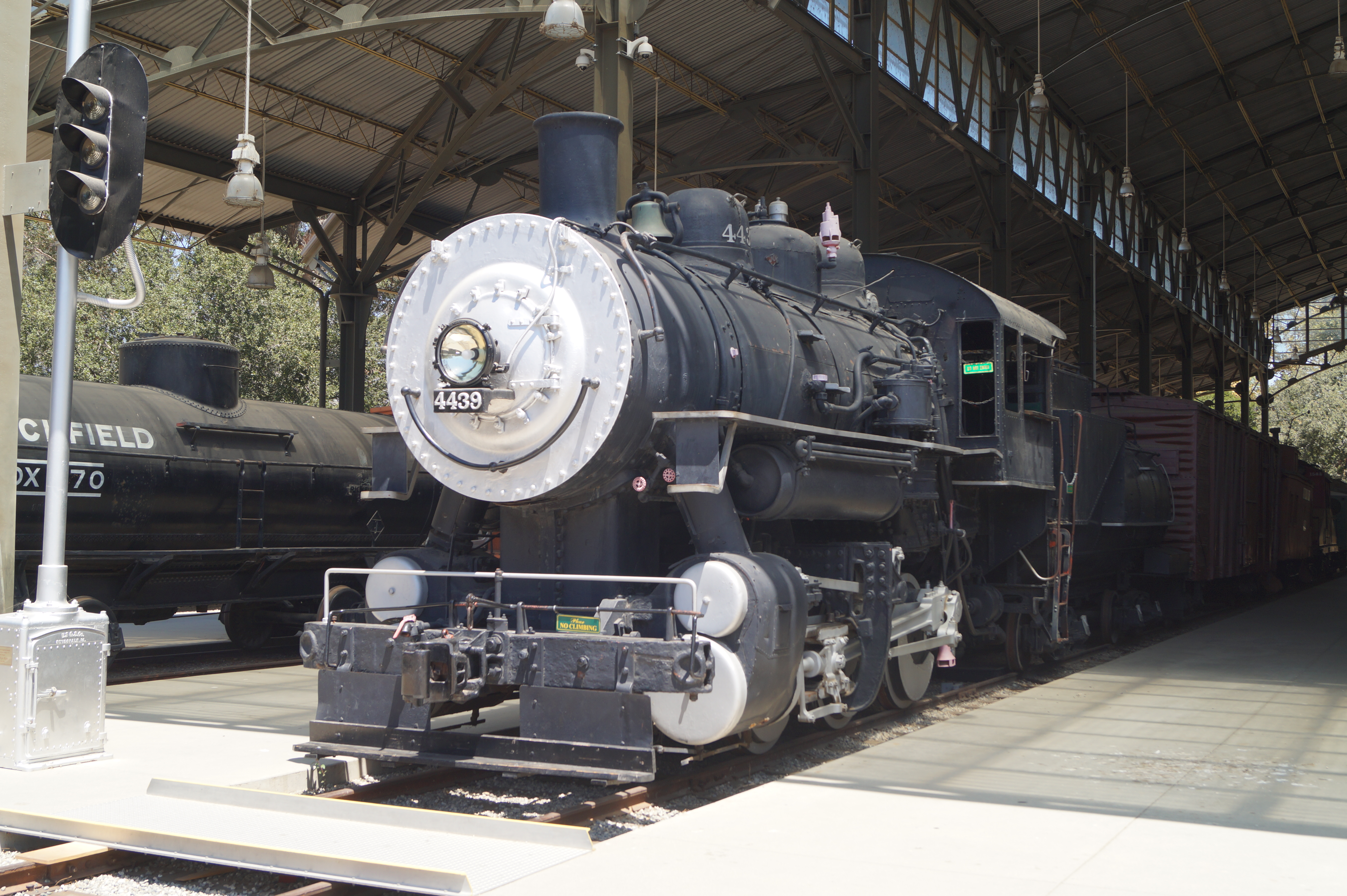 Travel Town Museum is a transport museum dedicated in the northwest corner of Los Angeles, California's Griffith Park. The history of railroad transportation in the western United States from 1880 to the 1930s is the primary focus of the museum's collection, with an emphasis on railroading in Southern California and the Los Angeles area.